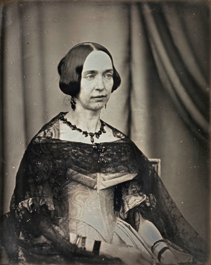 Portrait of Queen Josefina of Sweden and Norway (1807-1876). Daguerreotype by J. W. Bergström. Item no. NM.0018406. Reproduction photo: Mats Landin, Nordiska museet